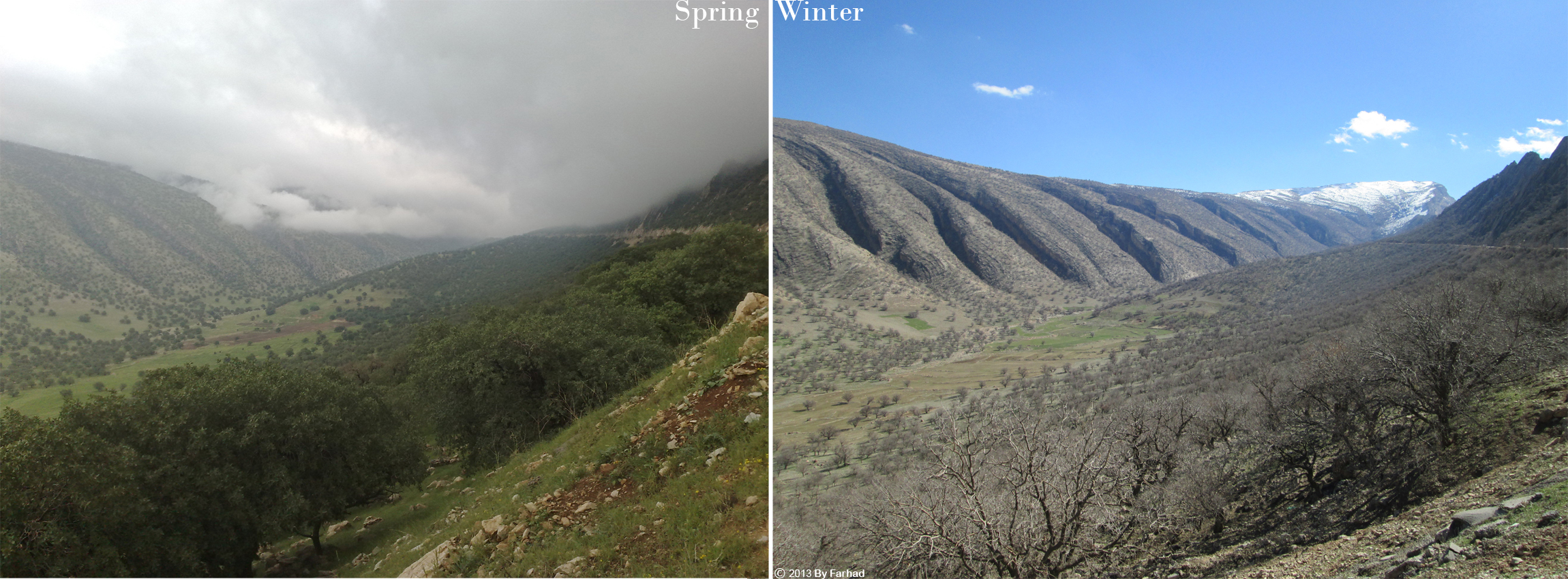 Reno Area Located Between Ilam and Eyvan is one of the best natural attractions of Eyvan.